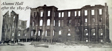 Saint Anselm College before the fire in 1892